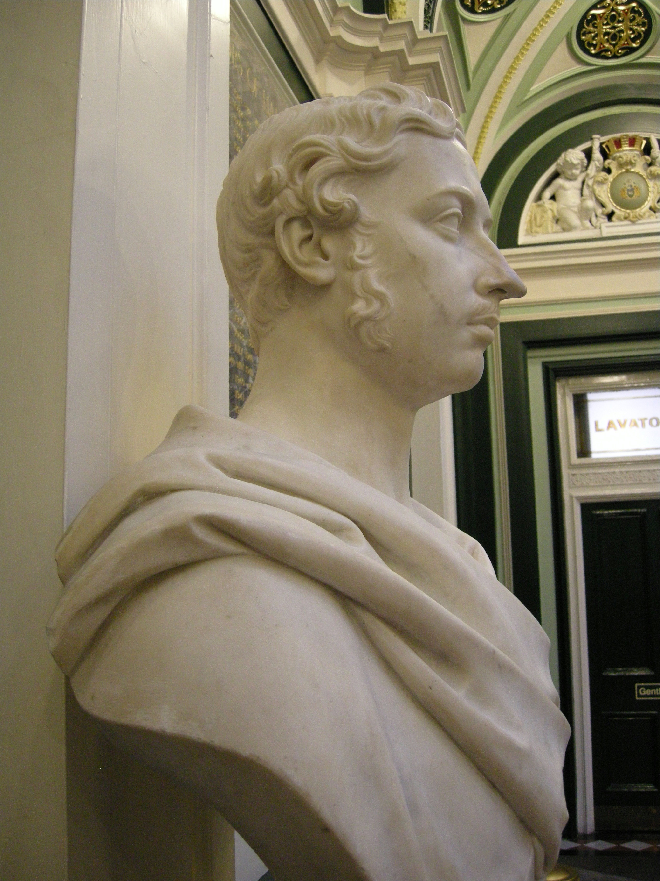 Town Hall, Halifax, West Yorkshire, England. 53 43'28"N. 1 51'38"W.